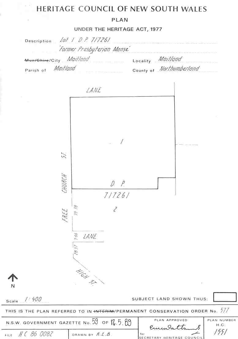 Presbyterian High School, Maitland: PCO Plan Number 577